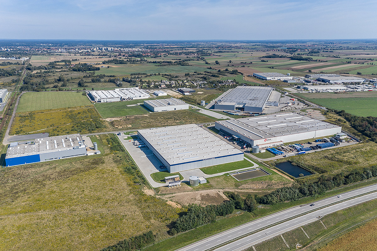 The picture of Accolade industrial park in Legnica